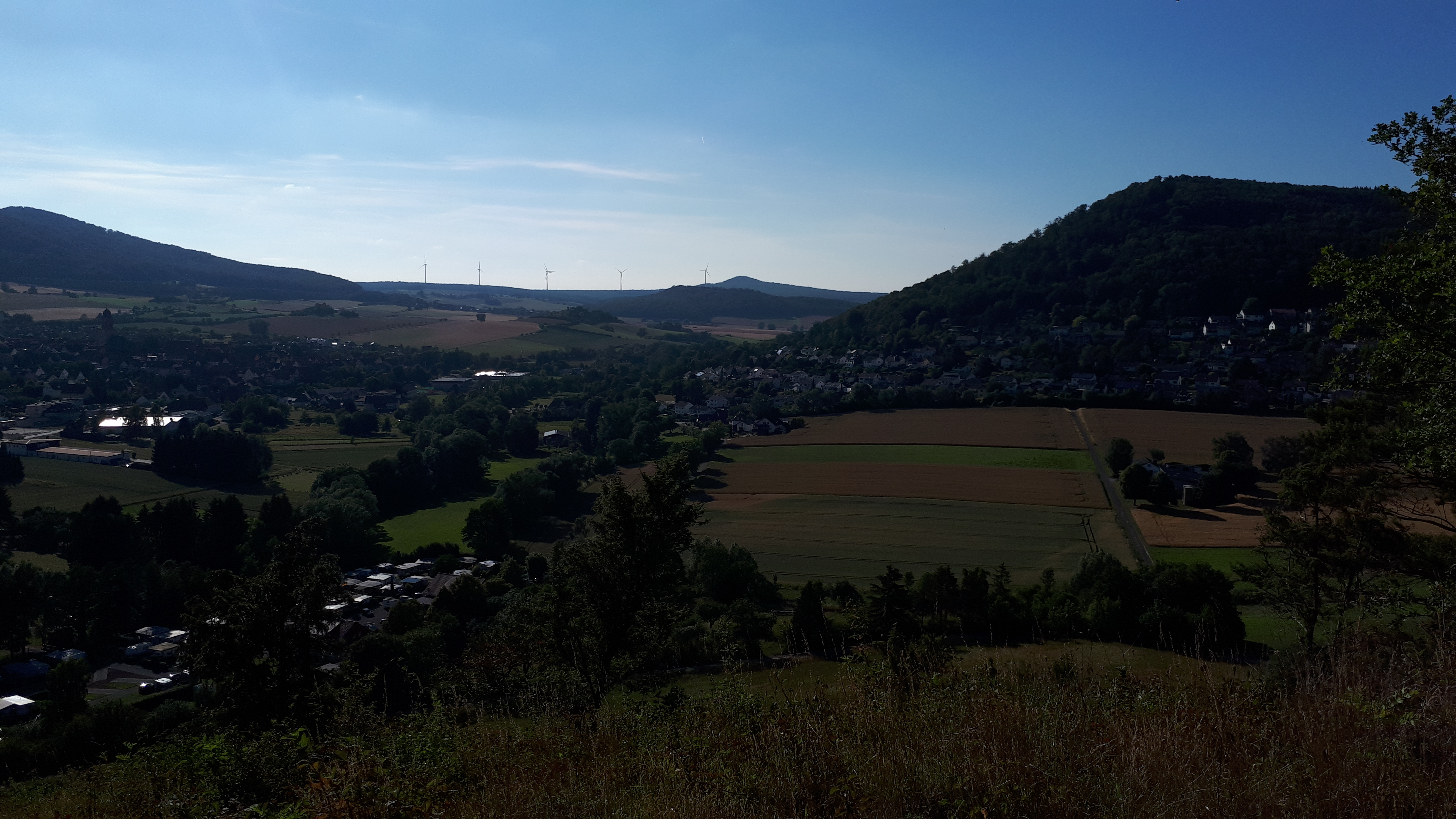 Distance view of Escheberg Mountain (in the centre). The town of Zierenberg in the front.